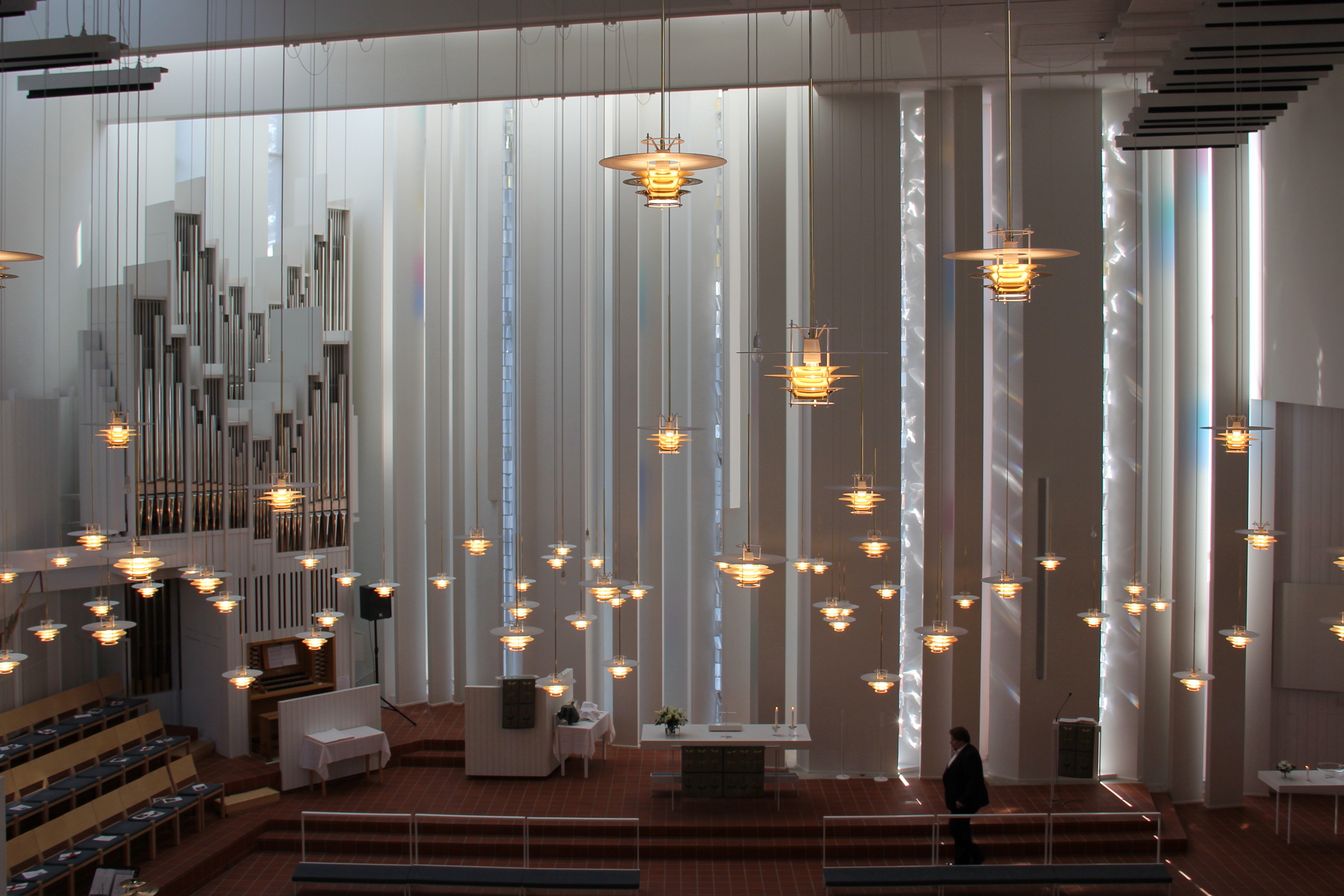 Church of the Good Shepherd in Western Pakila, Helsinki, Finland. - Extension and restoration in 2002 by architect Juha Leiviskä. - Altar and pipe organ seen from balcony. Organ built by Martti Porhan in 2002 in the style of Andreas Silbermann.